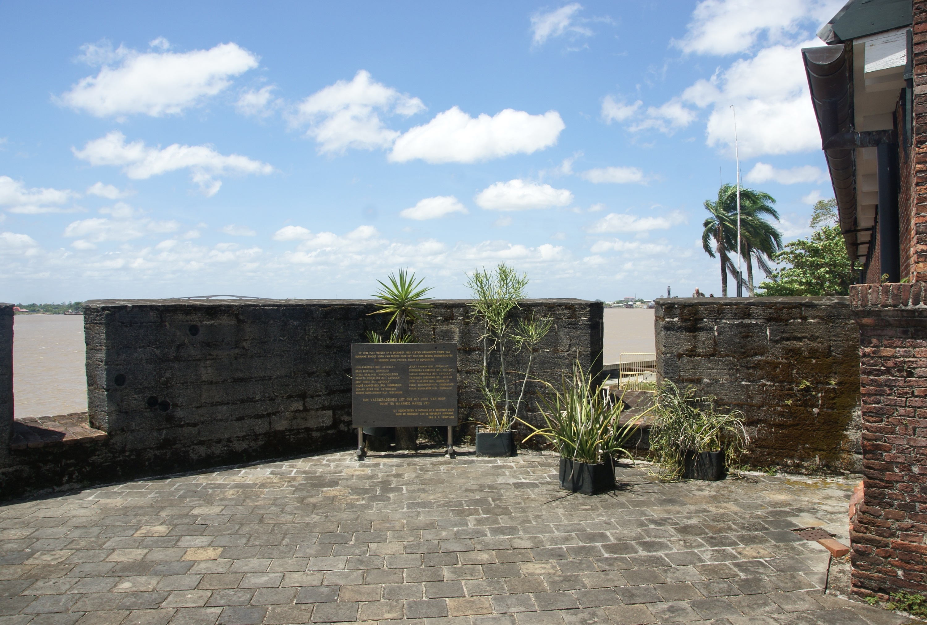 Monument for December killings, Fort Zeelandia, Paramaribo, Surinam.